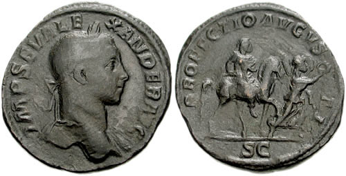 Sestertius of Alexander Severus, celebrating the emperor leaving for the Persian war